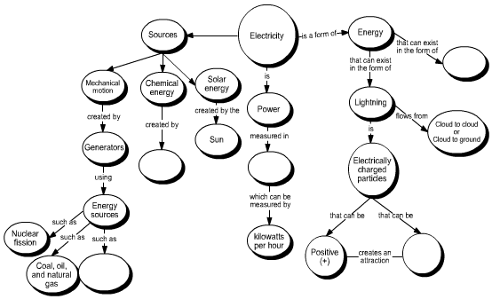 Electricity Concept Map The concept map below illustrates the major ideas in The Case of the Electricity Mystery. Finish the map by supplying the words needed to complete the line of thinking. Extend the map by using the additional terms provided. Missing terms: flowing water, watts (W), static electricity, batteries, negative (-) Extension terms: hydroelectric, circuit, series, parallel, short circuit